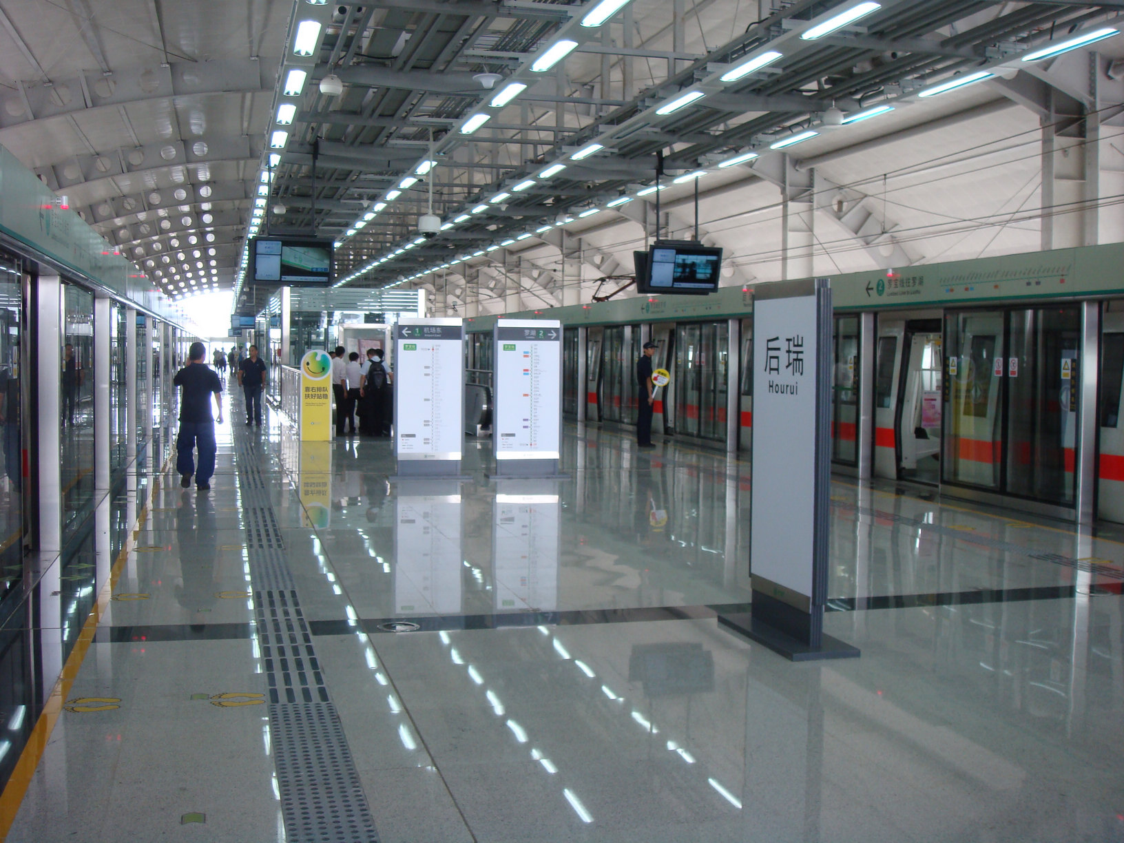 Hourui Station of Luobao Line, Shenzhen Metro.